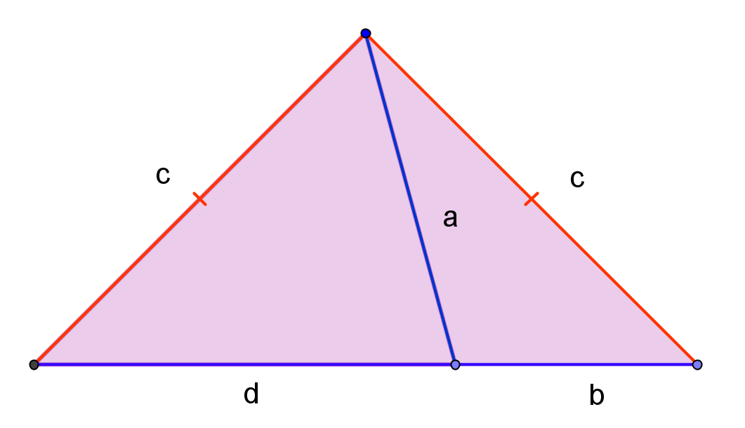 Generalization-of pythagorean theorm - equal-sides